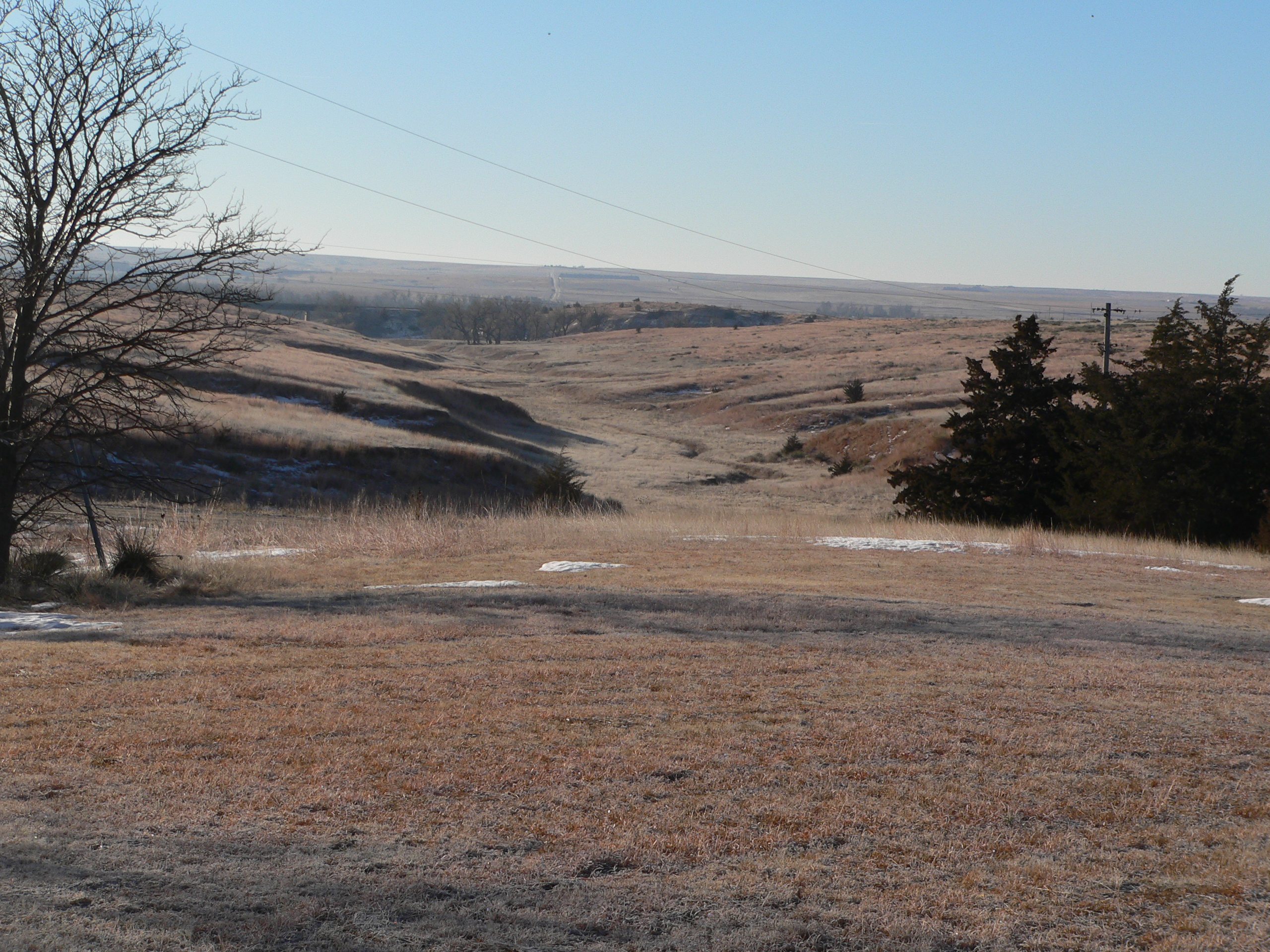 View looking southwest from Massacre Canyon monument, on south side of U.S. Highway 34 northeast of Trenton, Nebraska. The canyon runs down to the Republican River.